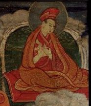 Gompo Tsultrim Nyingpo (b.1116 - d.1169) -famous Tibetan Buddhist scholar